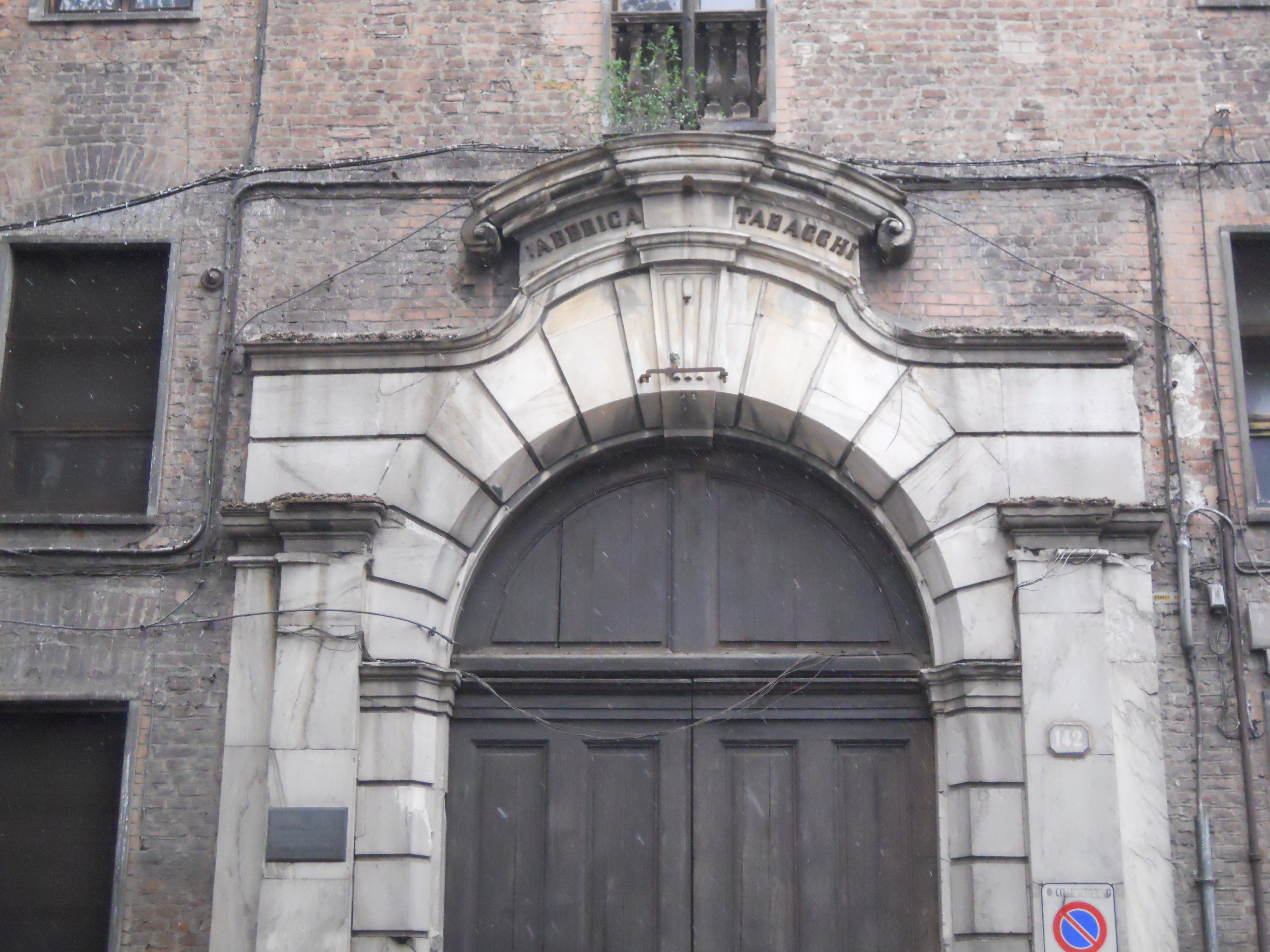 The door of factory